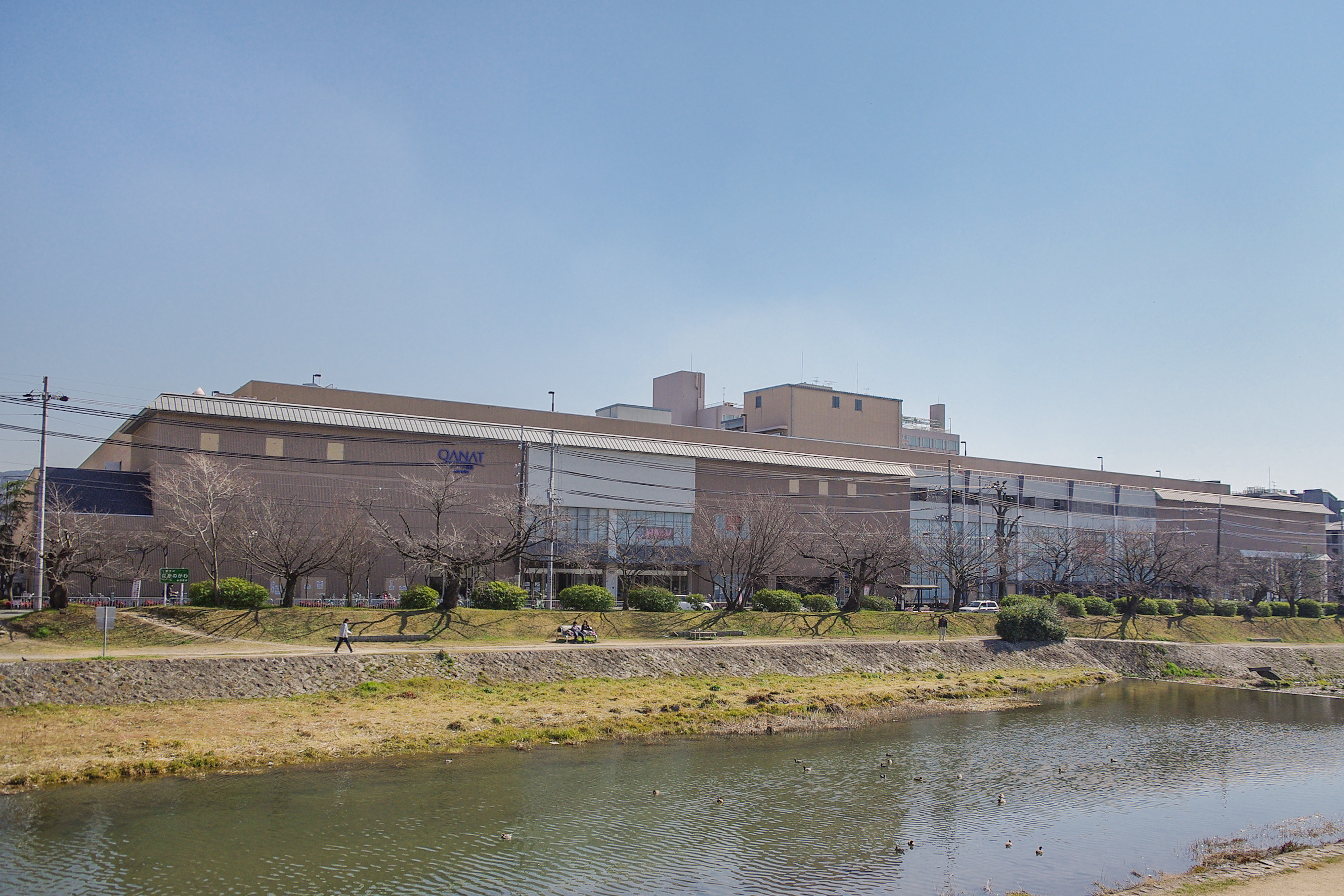 Photograph of the distant view of "Qanat Rakuhoku" shopping center in Sakyo-ku, Kyoto, Kyoto Prefecture, Japan.